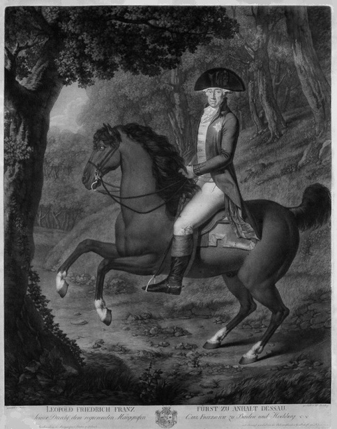 Portrait of Leopold Friedrich Franz of Anhalt Dessau